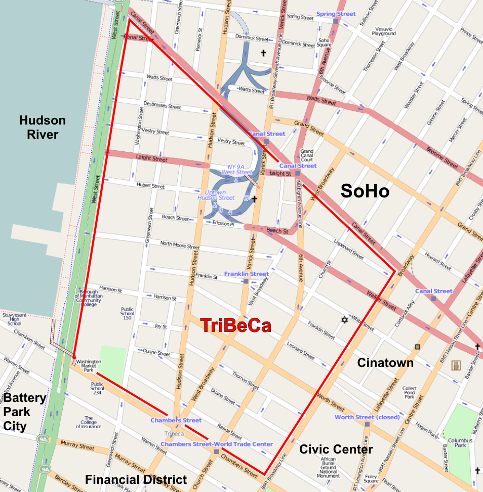 Map of TriBeCa - Manhattan